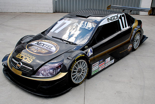 The new car of Stock car Brasil